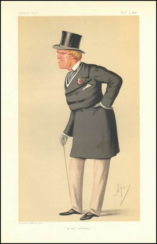 Caricature of Henry Chaplin MP (1840-1923), later 1st Viscount Chaplin. Caption read "A turf reformer".